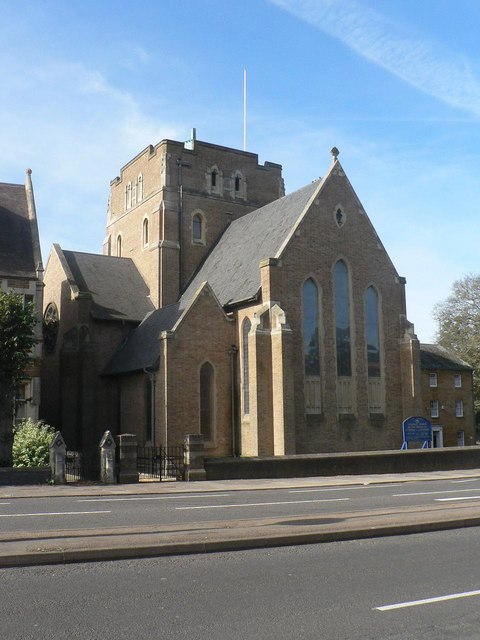 Northampton: Catholic cathedral church of Our Lady Immaculate and St Thomas of Canterbury Situated in Barrack Road, the road towards Market Harborough out of Northampton.